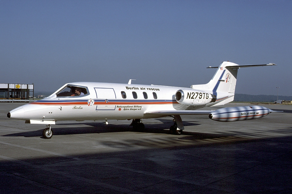 Operated by Tempelhof AW